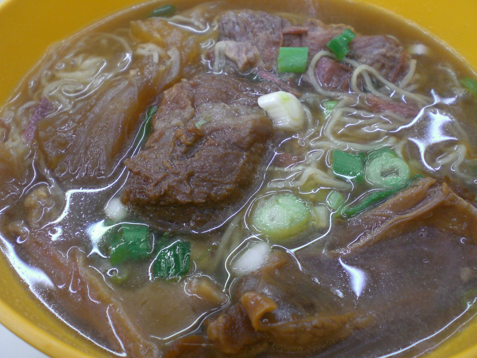 Beef brisket noodle soup